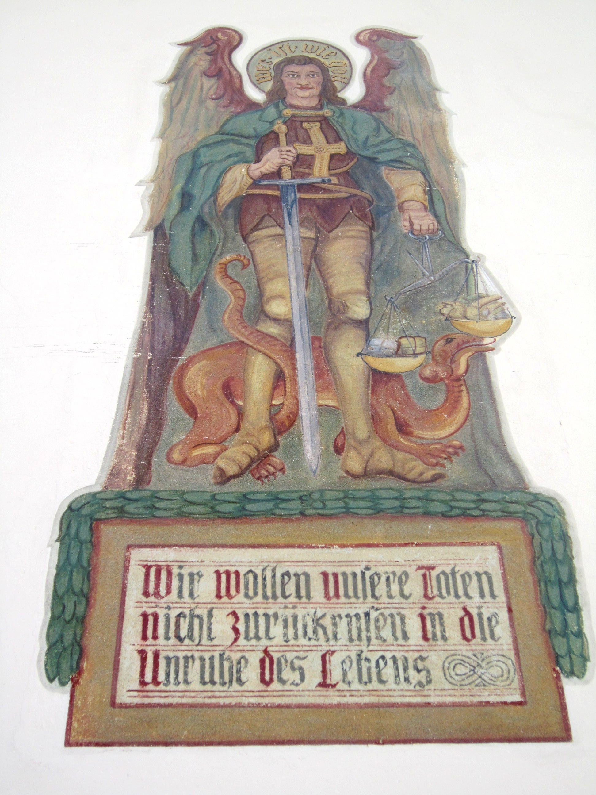 Aphorism in Sarnthein (South Tyrol)